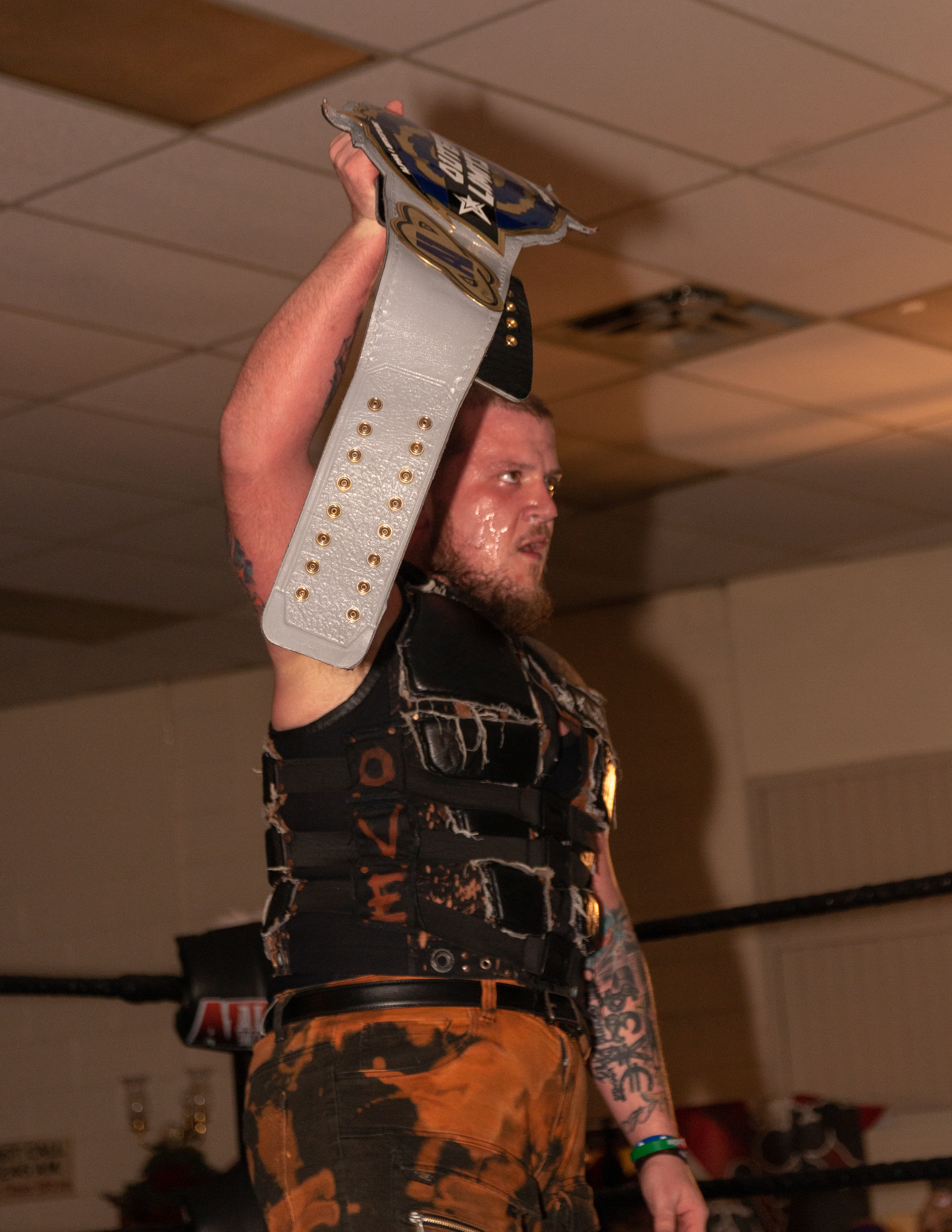 Sami Callahan holding his newly-won Outer Limits title at Alpha-1's Final Act 9 show in Hamilton, ON